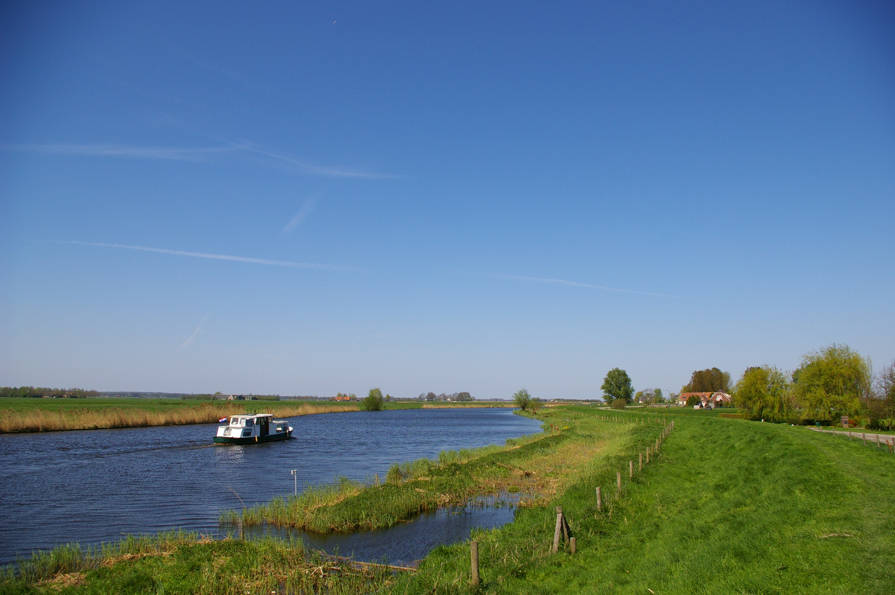 River Eem just north of Eembrugge, between Hilversum and Amersfoort, the Netherlands. Used onnl:Eem and Zuiderzeepad. Location is a bit approximate, but not off by more than a few hundred metres.